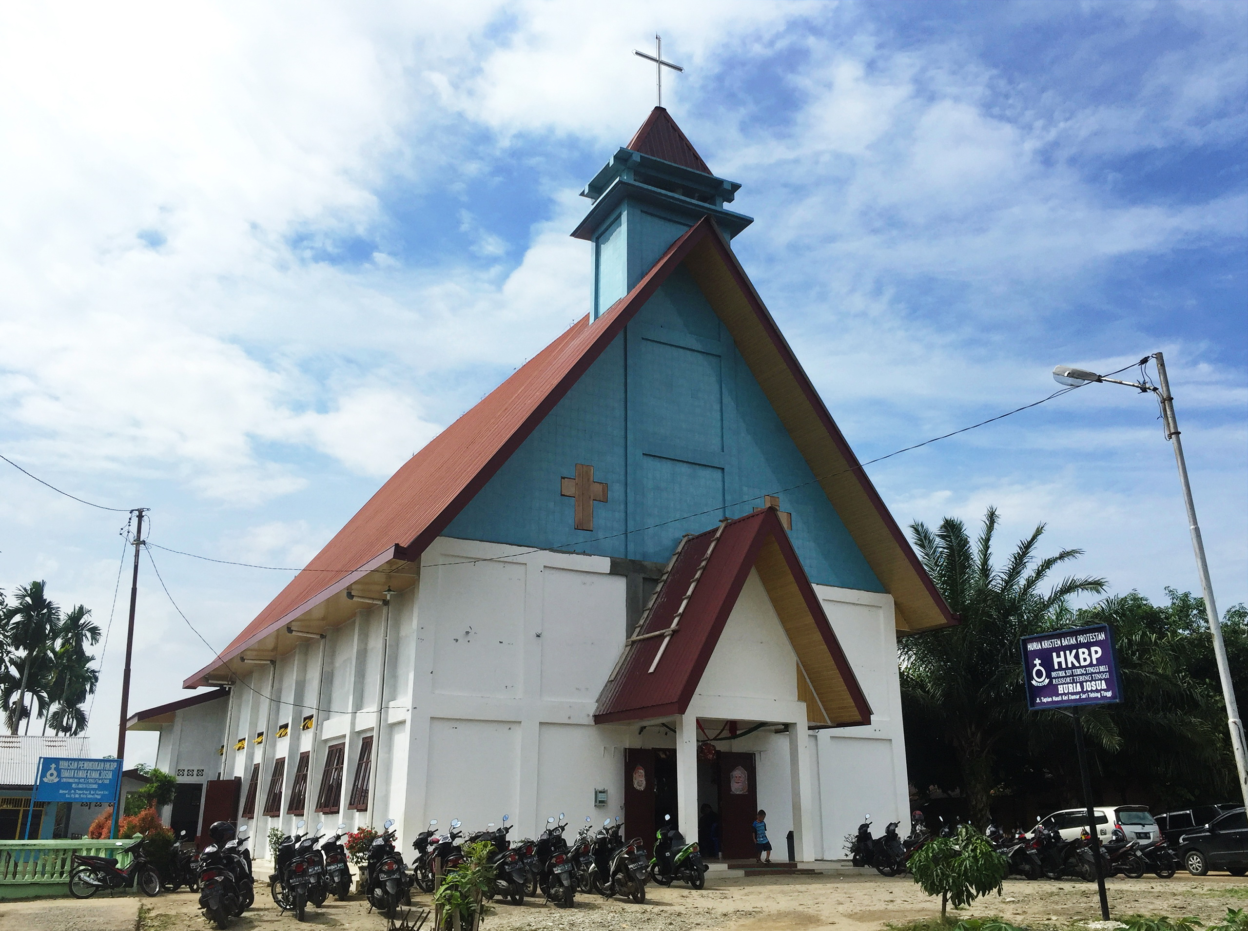 HKBP Josua, Church in Damar Sari, Padang Hilir, Tebing Tinggi, North Sumatra